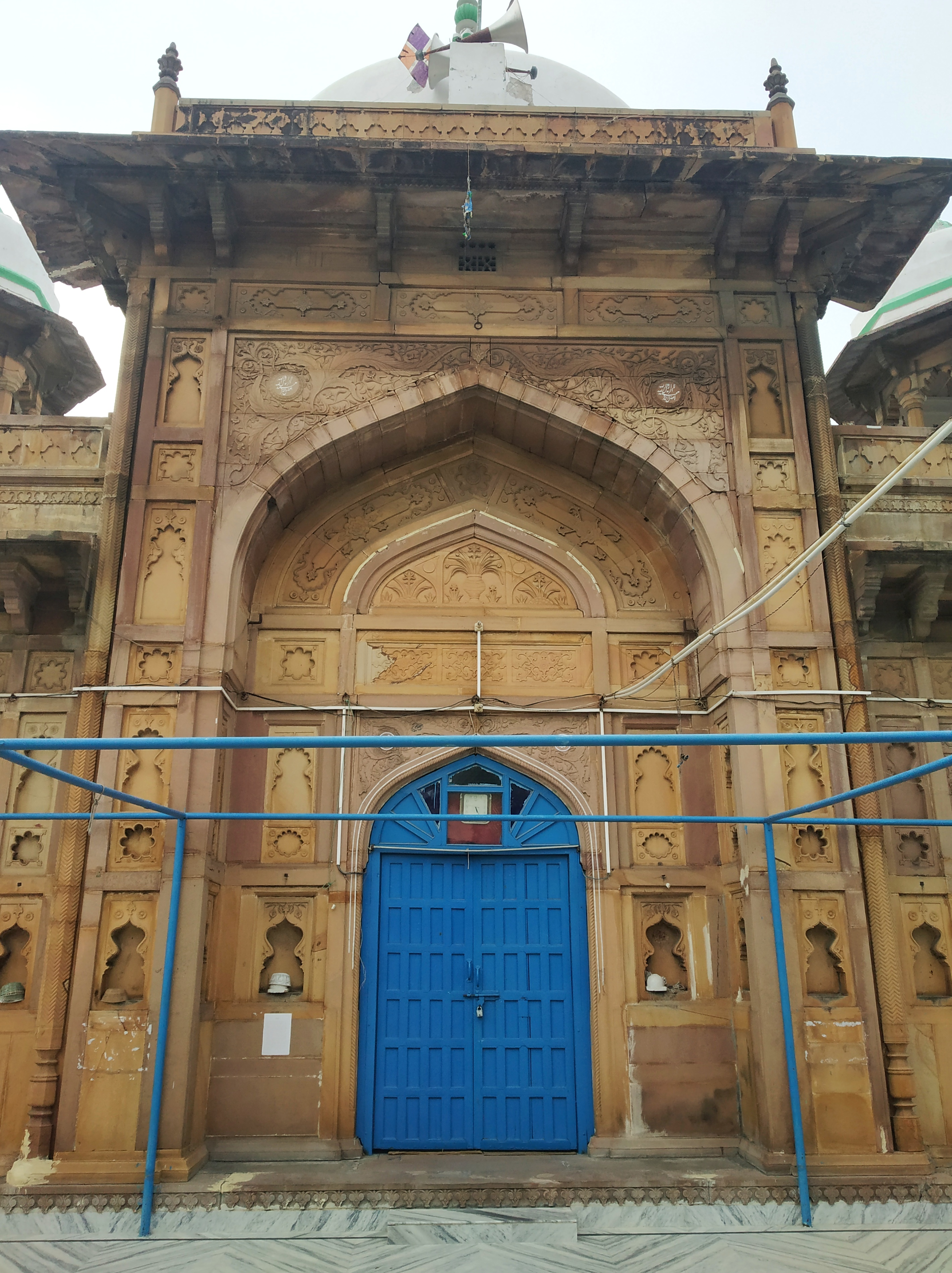 Main gate Shahi masjid Allahabad Bahadurganj Allahabad